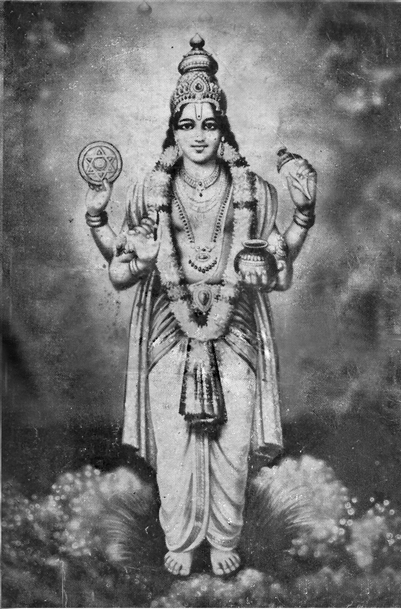 Lord of Ayurveda,Dhanvantari